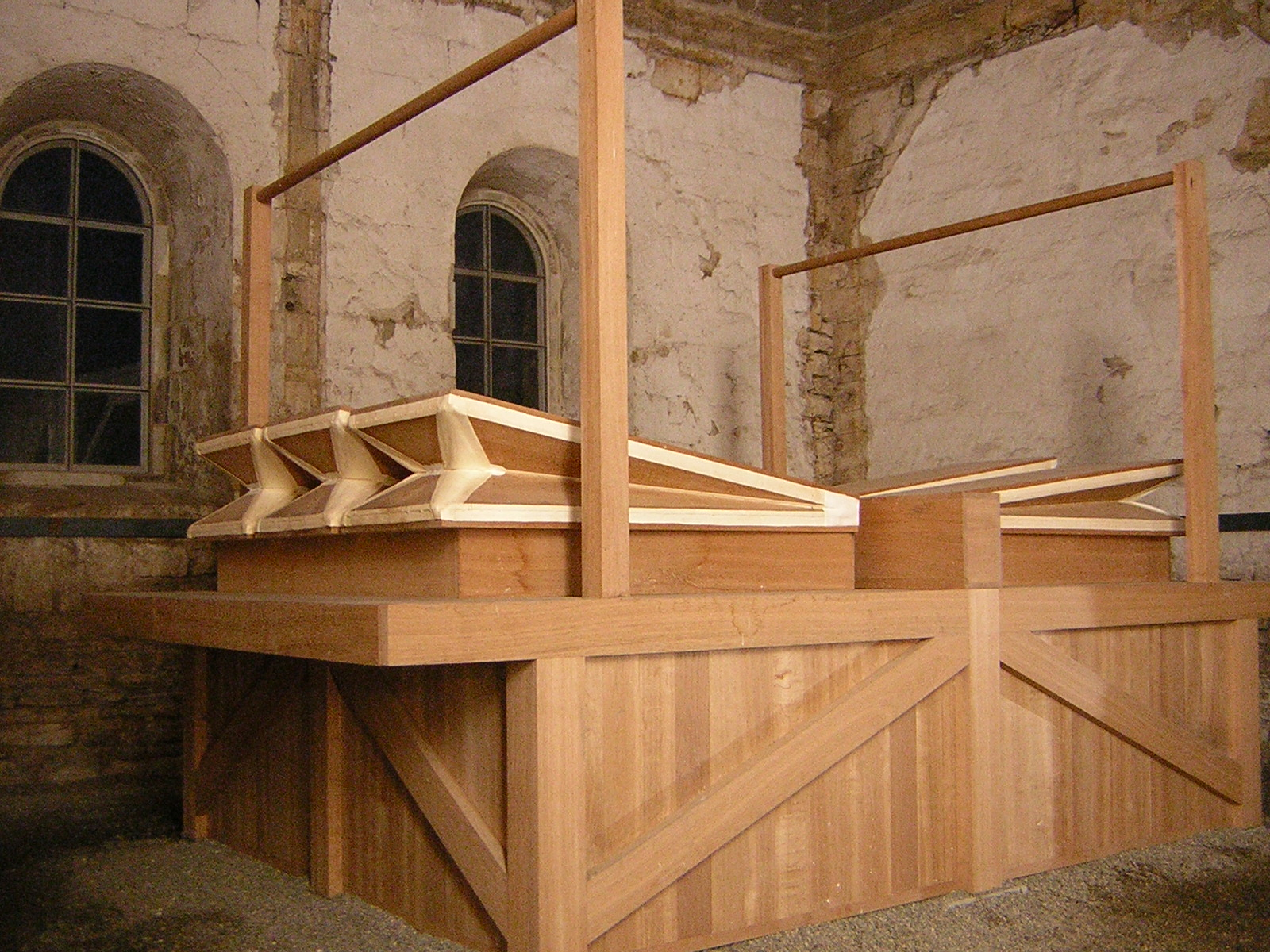 This image has been taken by Wikipedia-ce on january 5 of 2005 and is public domain. It shows the bellows in the burchardi church of Halberstadt, Germany.